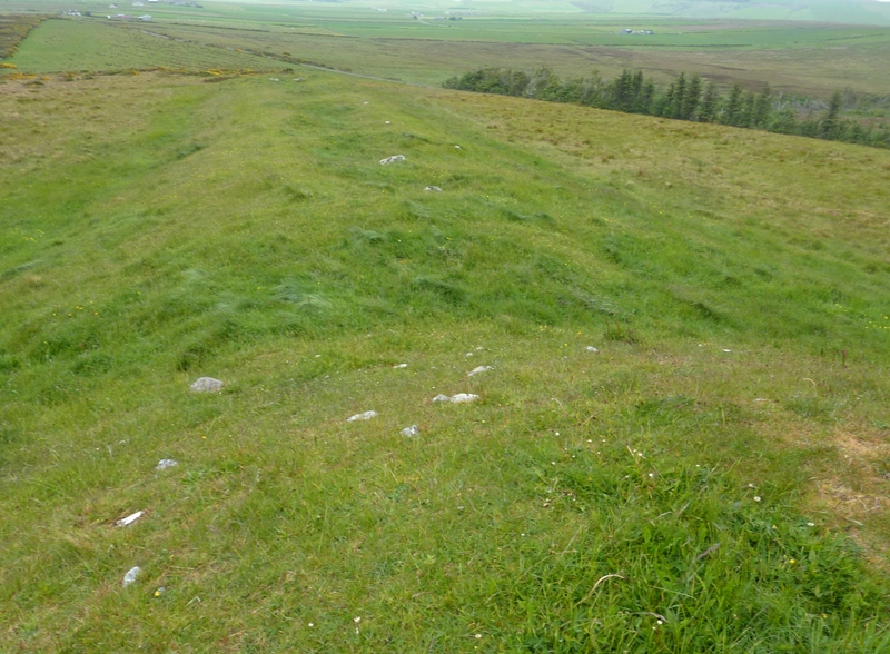 Cnoc Freiceadain Long Cairns, Shebster, Highland, Scotland - northern cairn